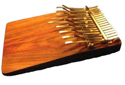 My son Tim Holdaway took this photo for me in 2005, and we release this photograph into the public domain.